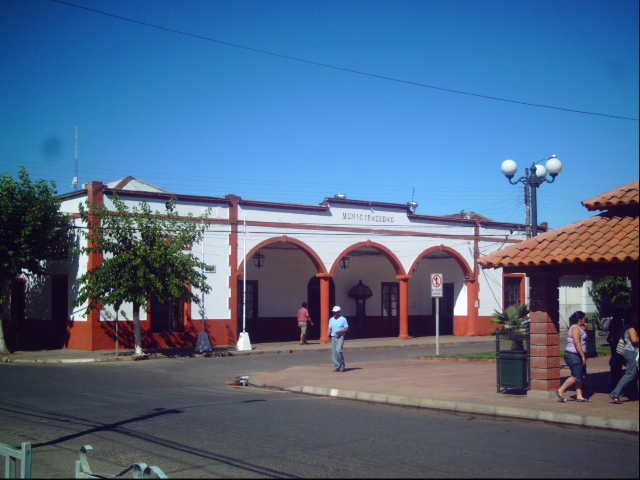 Municipality building of San Clemente, Chile